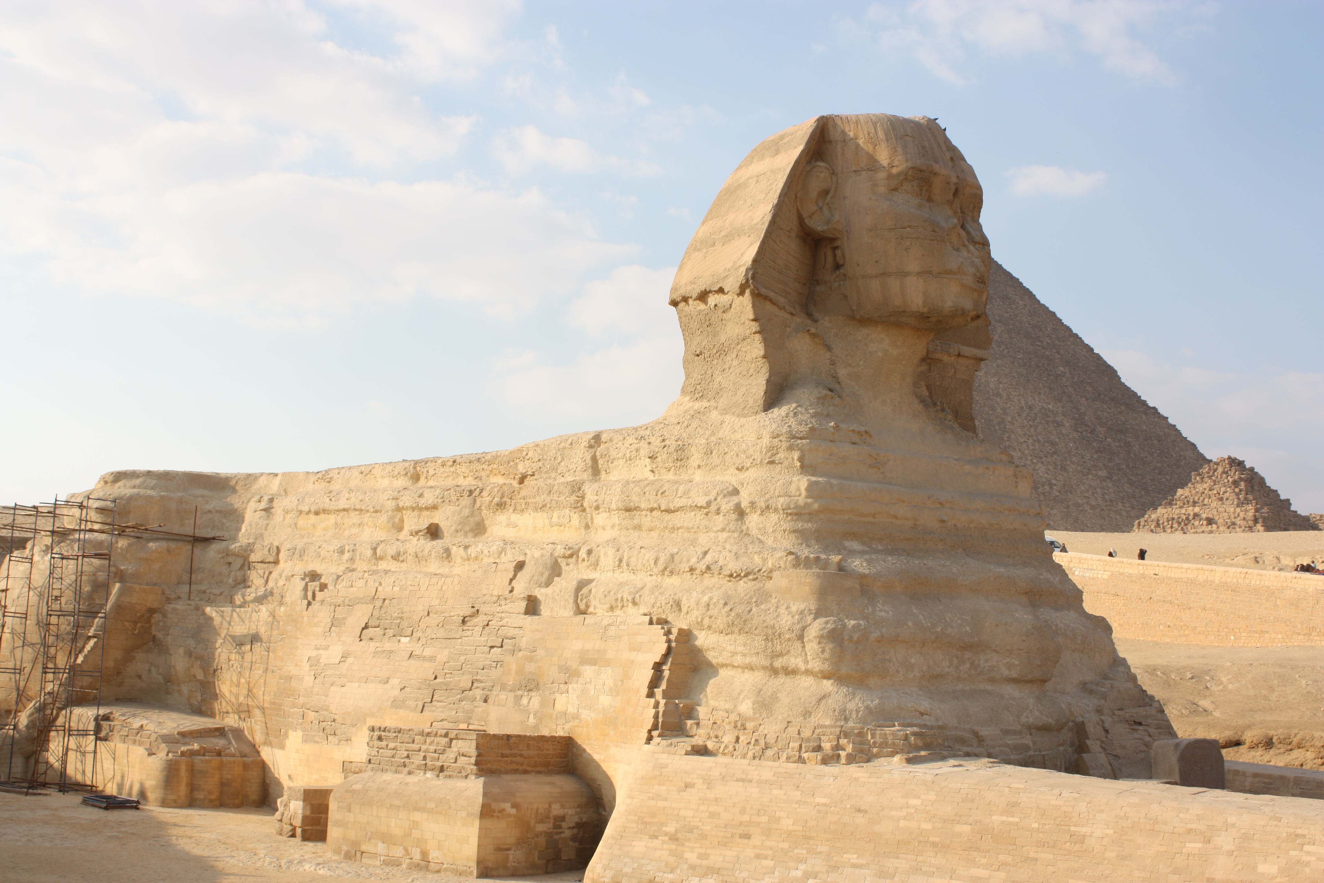 Great Sphinx of Giza.